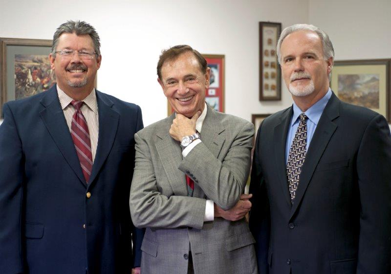 Tom Frederickson, Forrest Lucas and Bob Patison - all involved with Lucas Oil